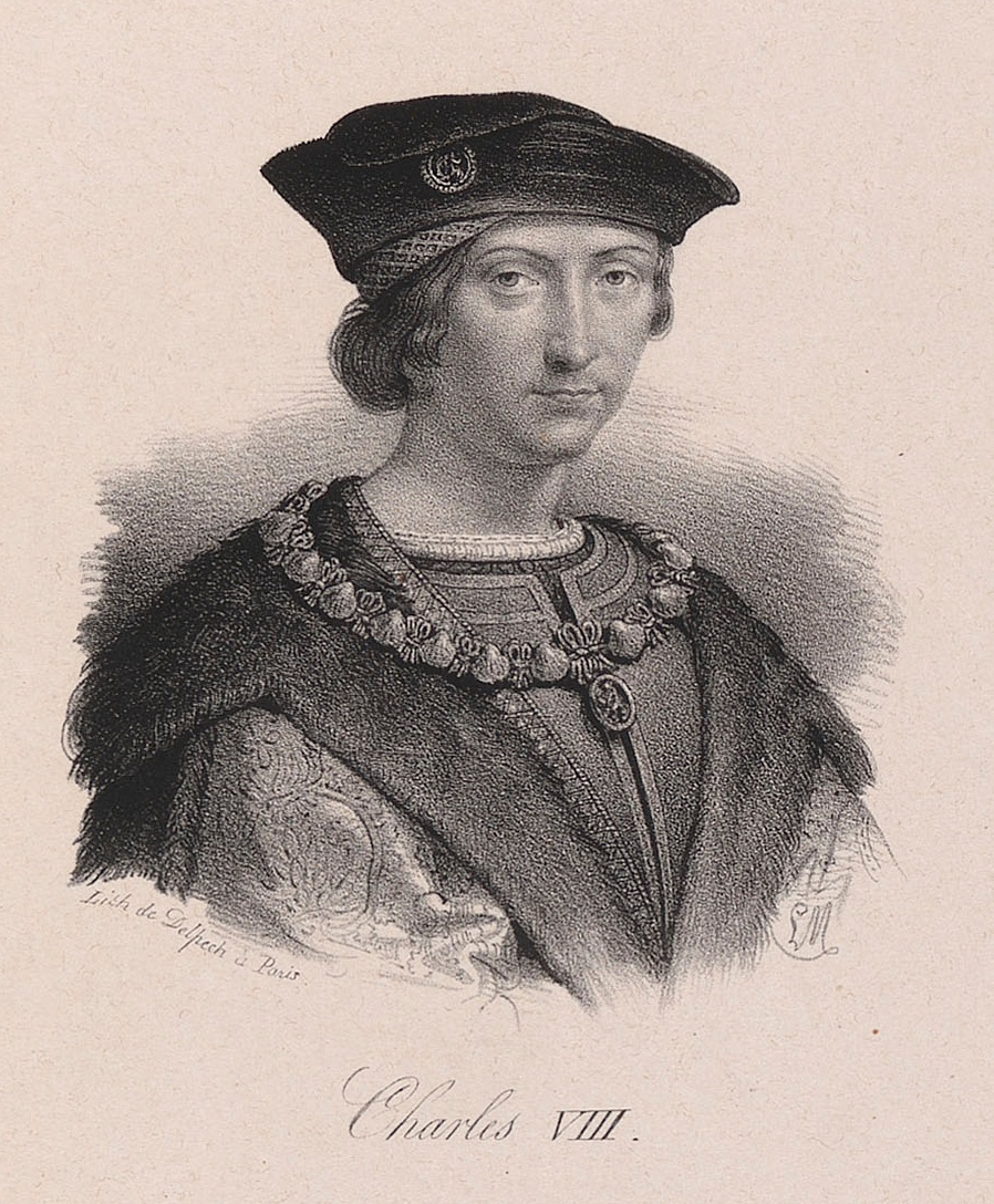 Charles VIII of France (1470-1498)